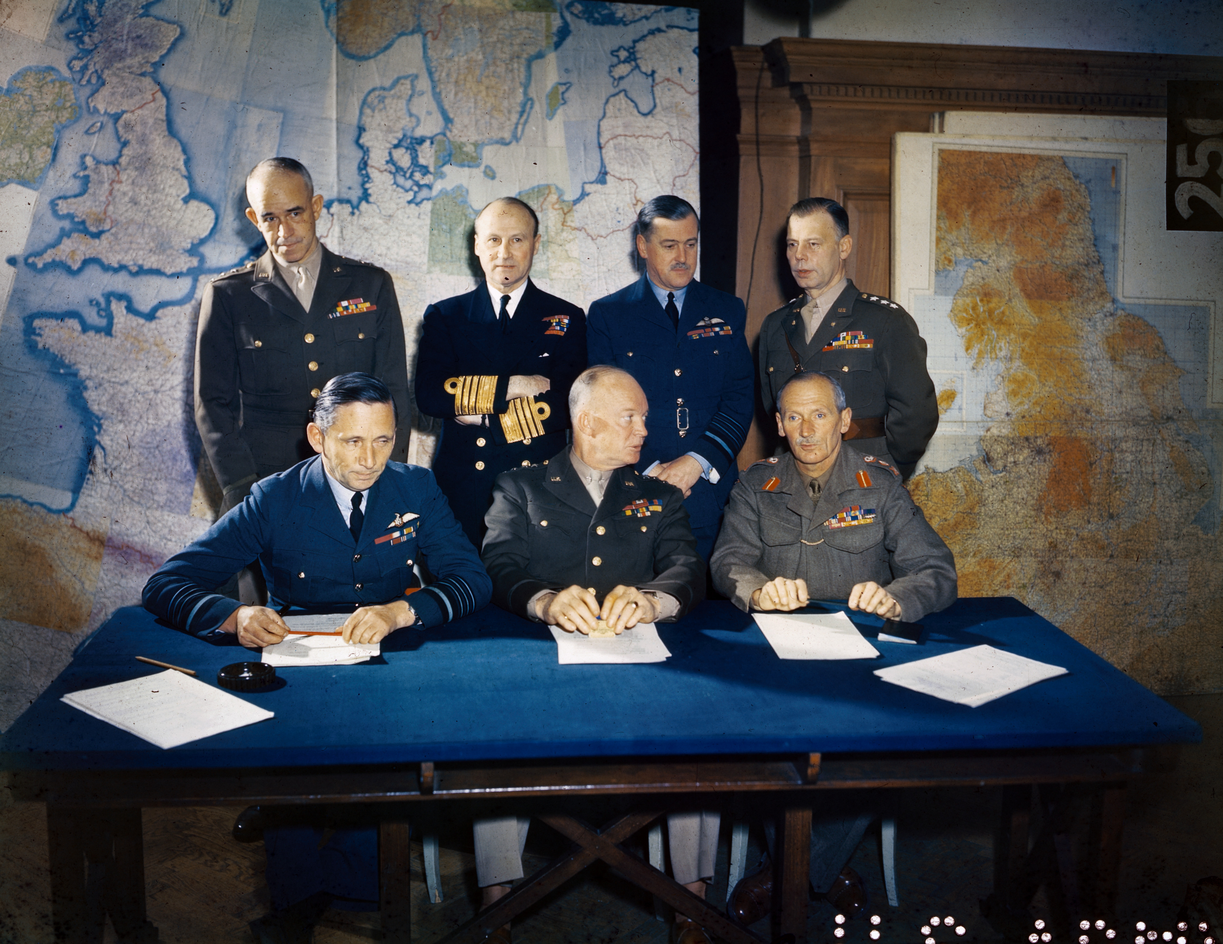 Meeting of the Supreme Command, Allied Expeditionary Force, London, 1 February 1944 Left to right: Front row: Air Chief Marshal Sir Arthur W Tedder, Deputy Supreme Commander, Expeditionary Force General Dwight Eisenhower, Supreme Commander, Expeditionary Force General Sir Bernard Montgomery, Commander in Chief, 21st Army Group Back row: Lieutenant General Omar Bradley, Commander in Chief, US 1st Army Admiral Sir Bertram H Ramsay, Allied Naval Commander in Chief, Expeditionary Force Air Chief Marshal Sir Trafford Leigh-Mallory, Allied Air Commander in Chief, Expeditionary Force Lieutenant General Walter Bedell Smith, Chief of Staff to Eisenhower